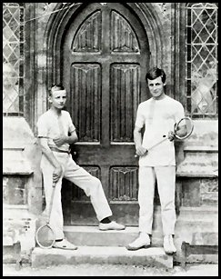 RP Keigwin and AEJ Collins at the Clifton College racquets court.